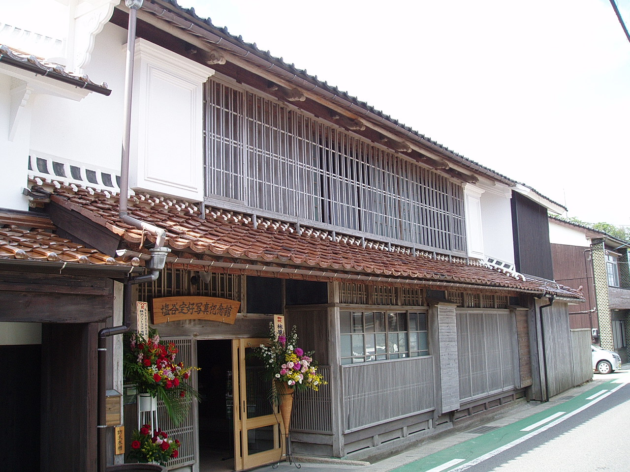 Shiotani Teiko Memorial Photo Gallery located in Akasaki, Kotoura, Tottori, Japan.The building of the gallery is his birth house.